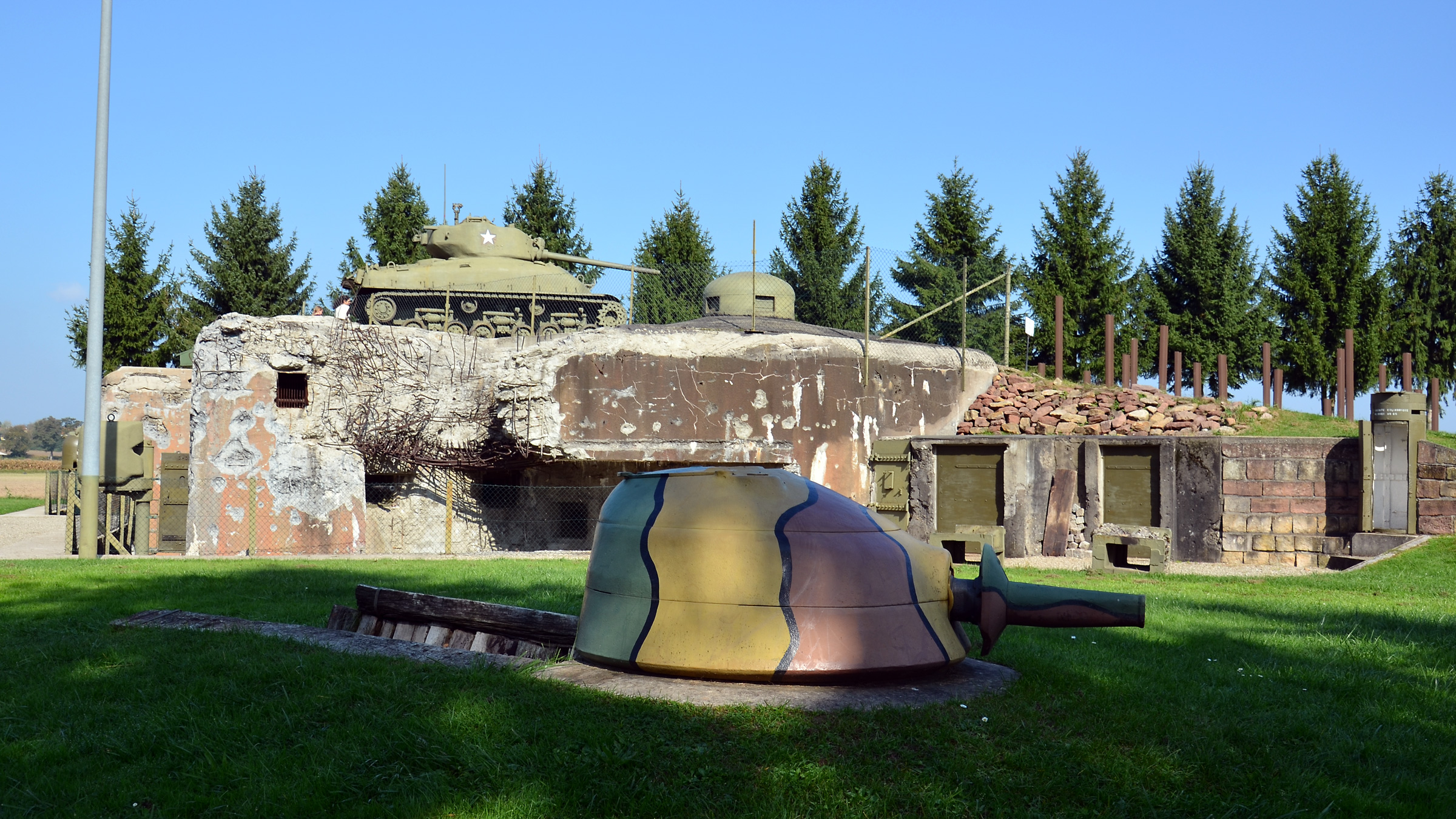 Esch near Hatten (France)